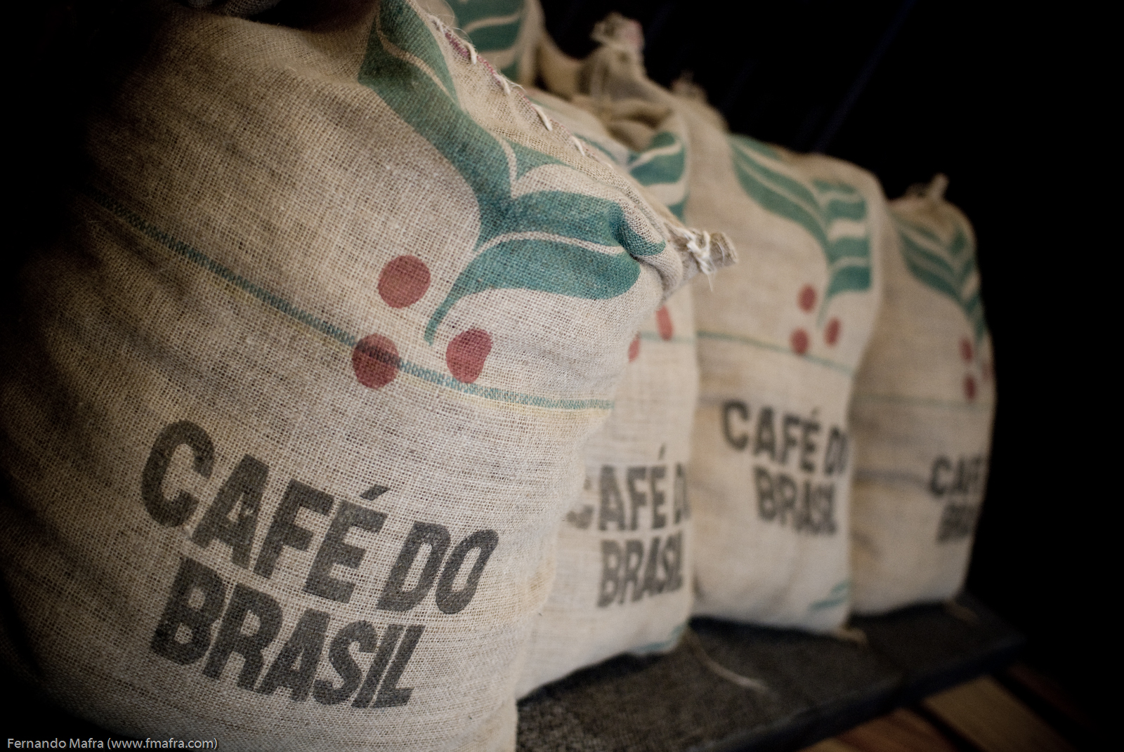 Coffe sacks in Bolsa do Café